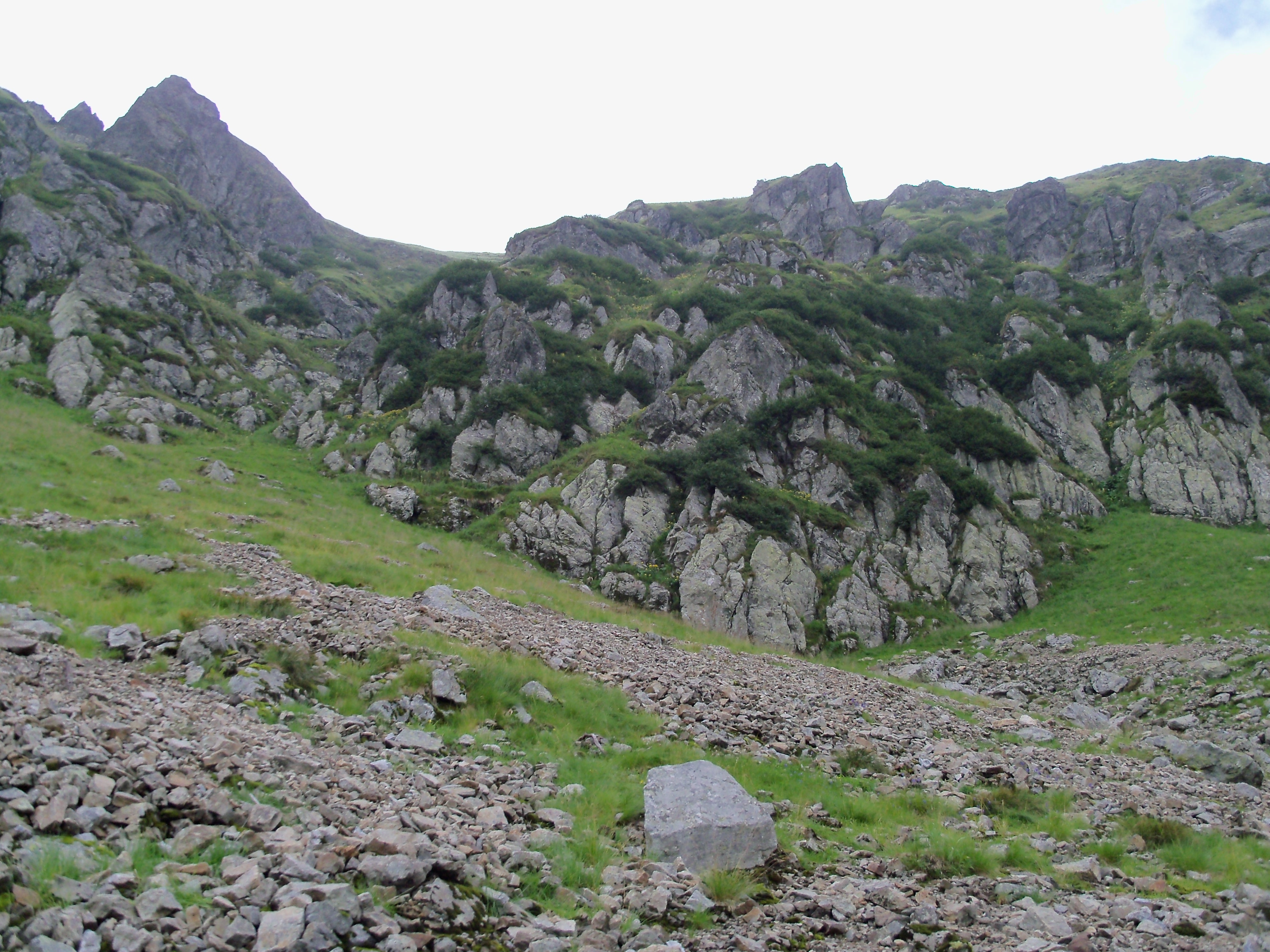 Rocks, Marmarosh mountains